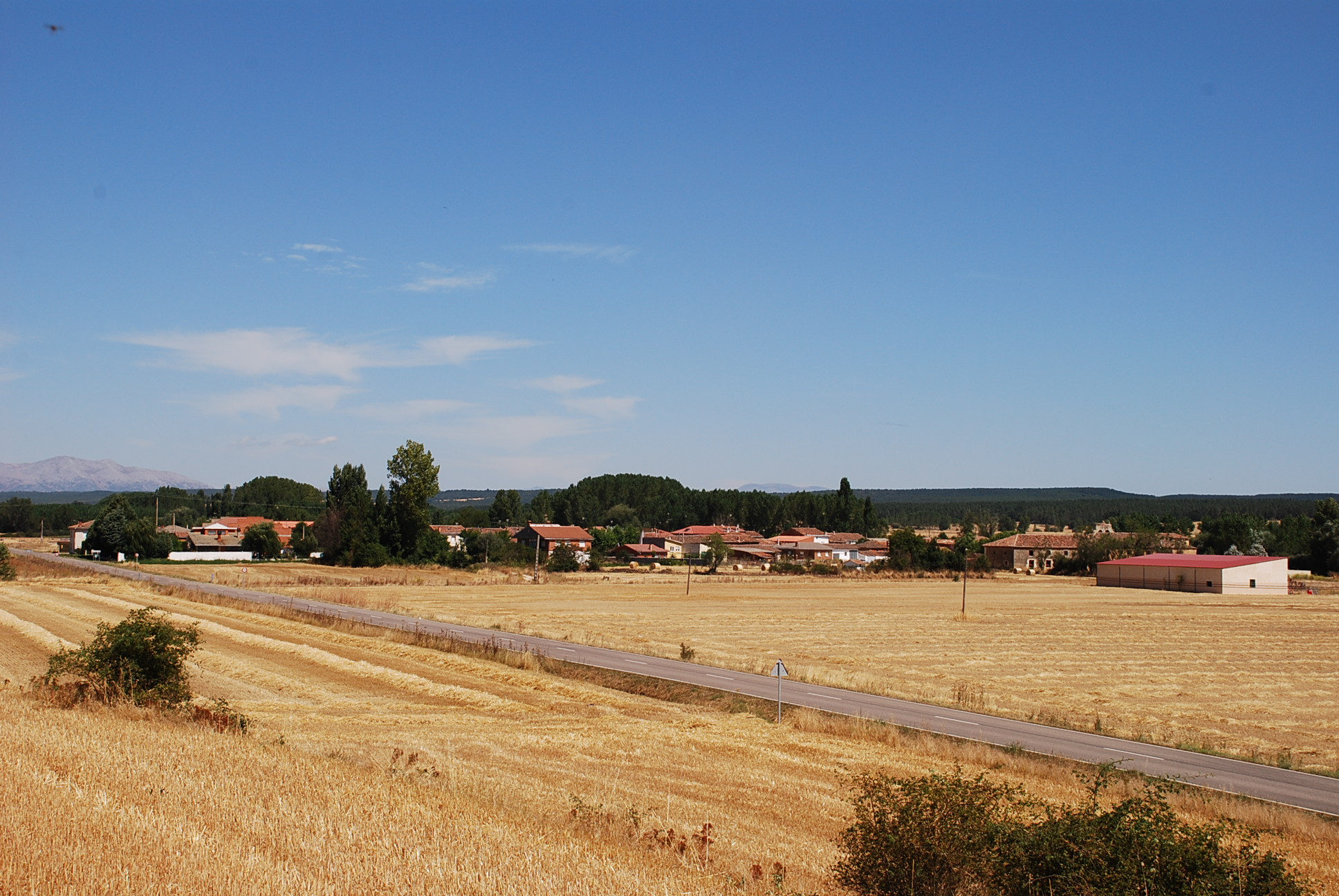 General view of Arenillas de San Pelayo (Palencia, Castile and León)